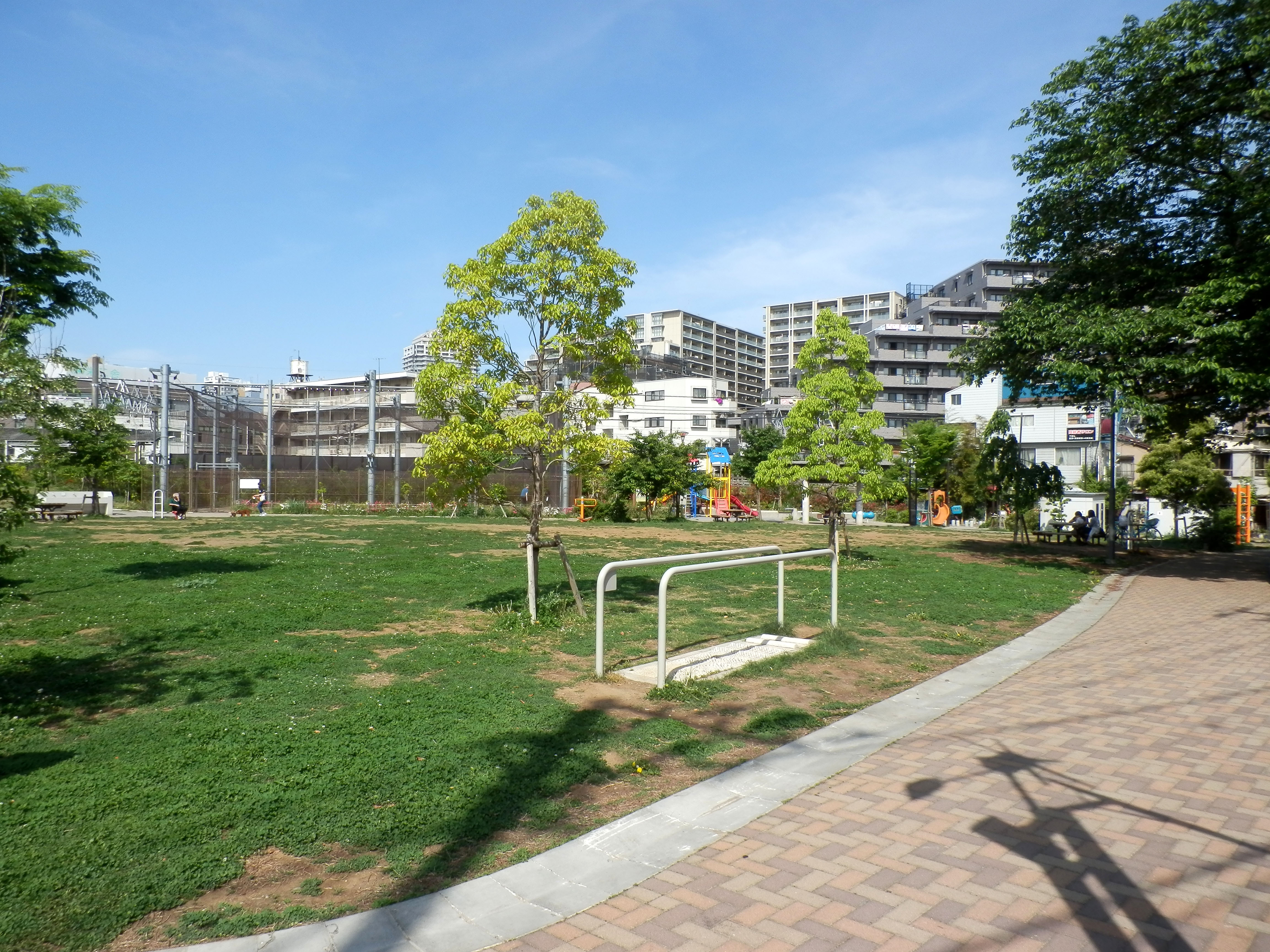 Ikebukuro Honcho Densha no Mieru Koen (A small park in Tokyo, Japan)